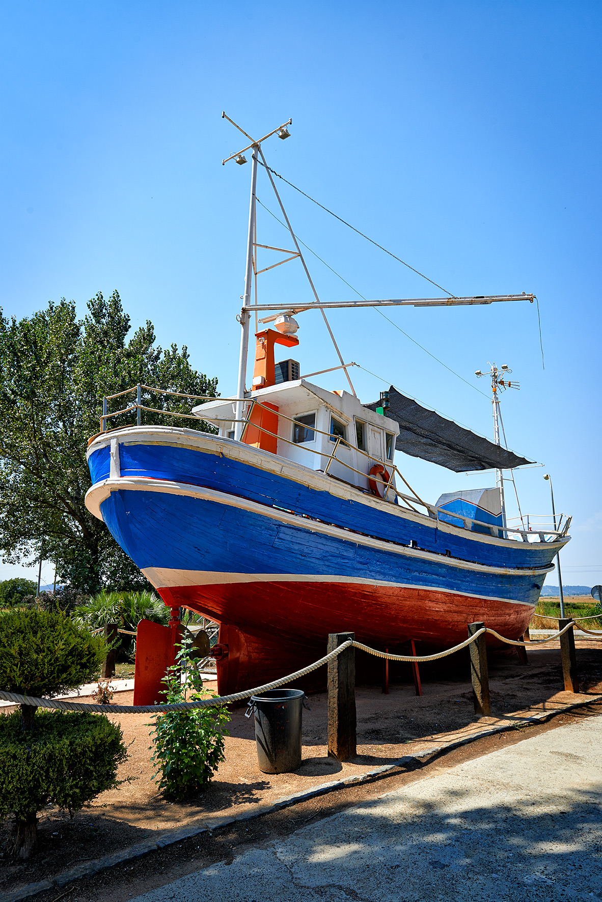 Hostal Doshaches boat at the entrance of Figarol (Navarra, Spain)